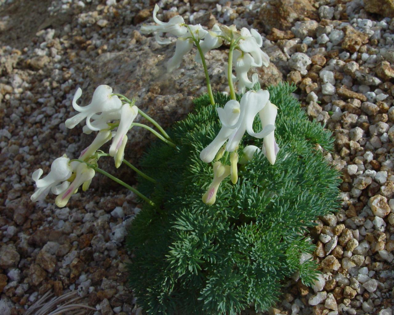 Dicentra peregrina f. alba in Mount Tsubakuro, Nagano pref., Japan.